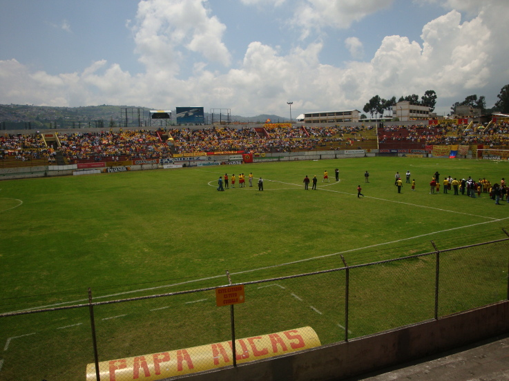 Aucas Stadium